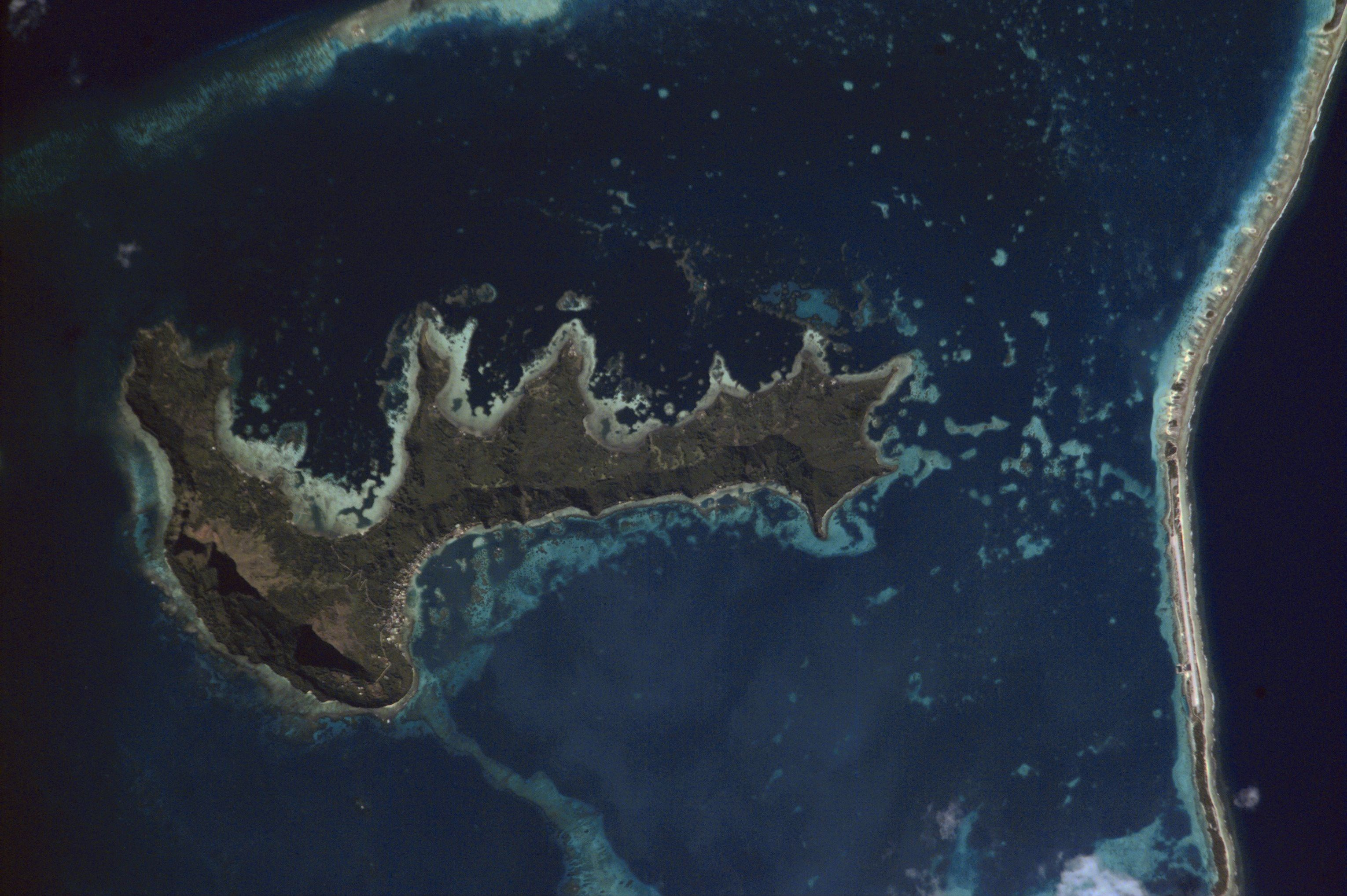 NASA astronaut image of Mangareva, Gambier Islands, French Polynesia